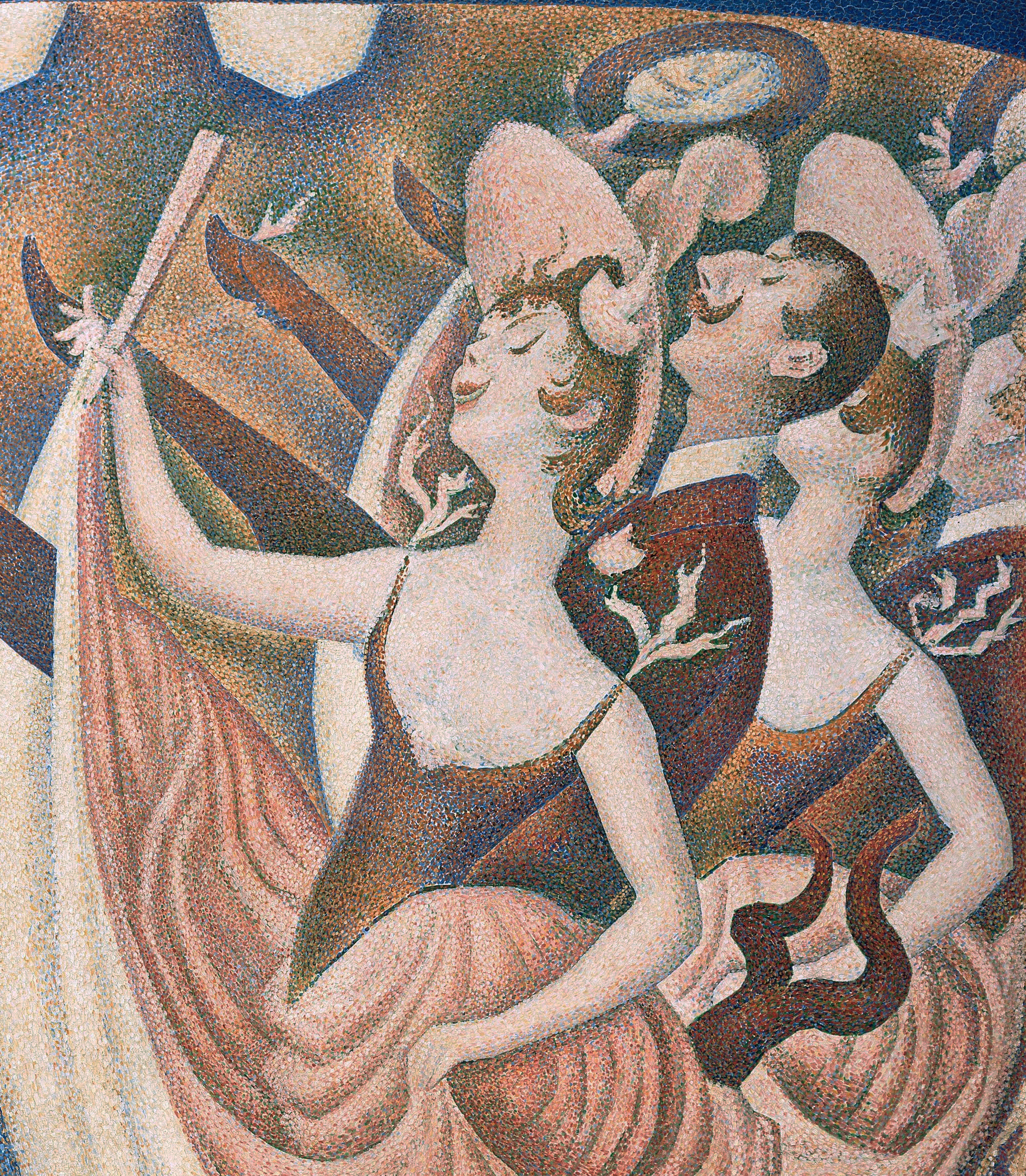 Can-can (detail, upper right)